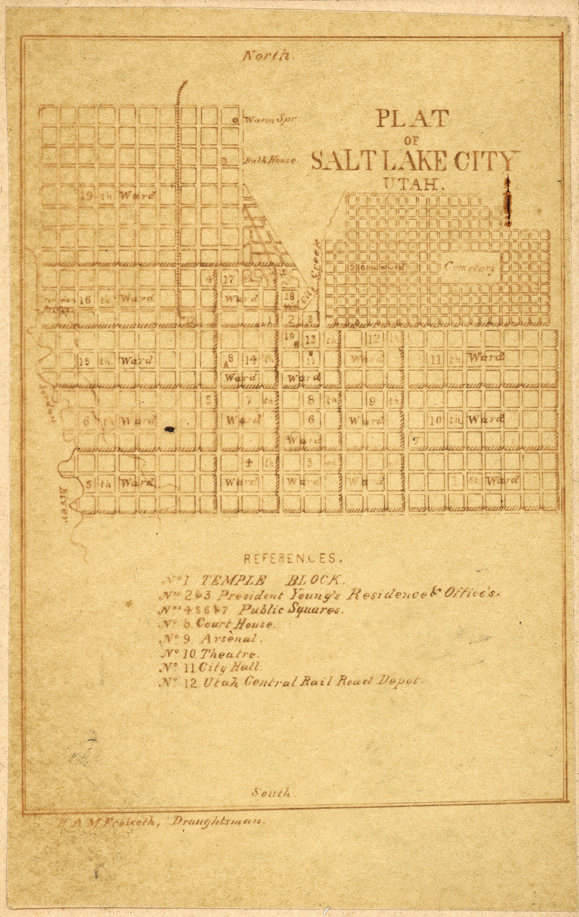 Photograph of a street map of Salt Lake City called Plat of Salt Lake City, Utah. A street map, showing the blocks and divisions of blocks in the downtown Salt Lake City area produced in the late 1860's by E. Martin, Photographer, East Temple Street, Salt Lake City, Utah Territory.